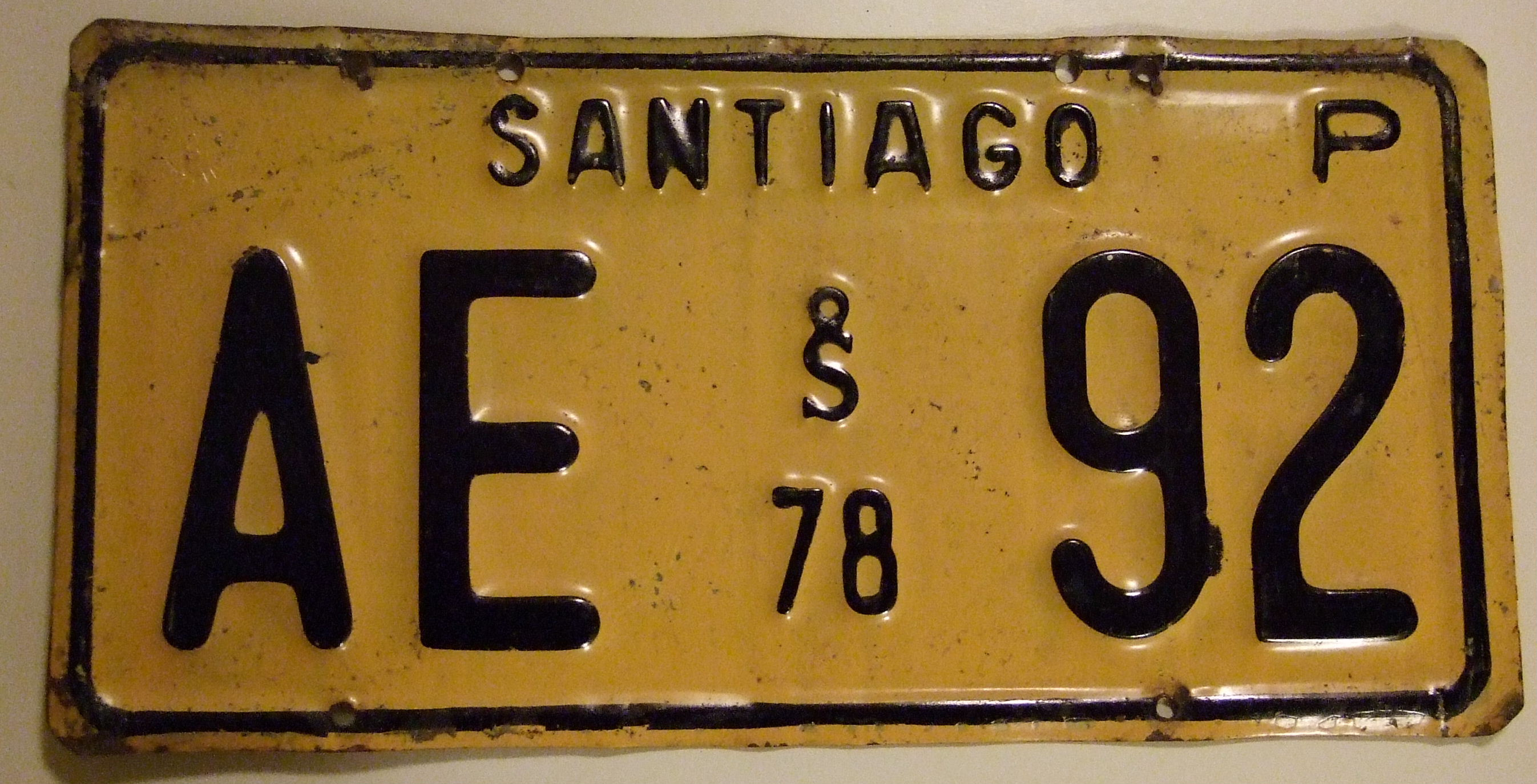 1978 Santiago Chile passenger plate in black on yellow. Commercial plates were white on black in 1978.